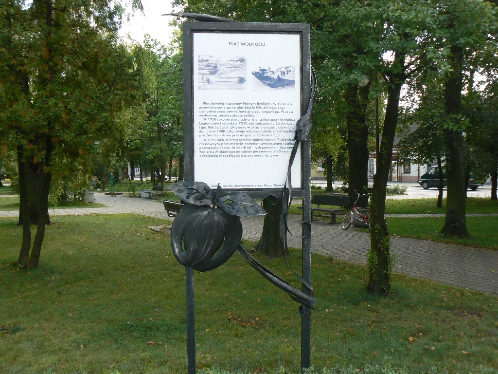 One of the informative boards describing history of Bełchatów (Poland)